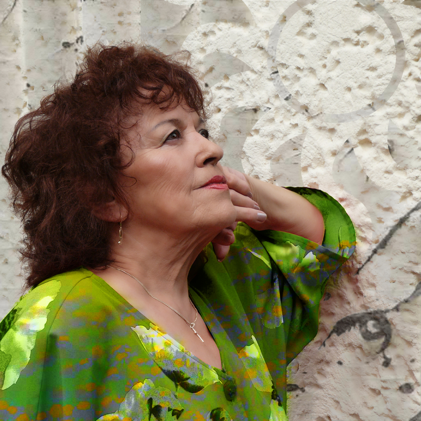 The singer Gerti Möller in November 2010 in Berlin (Germany).